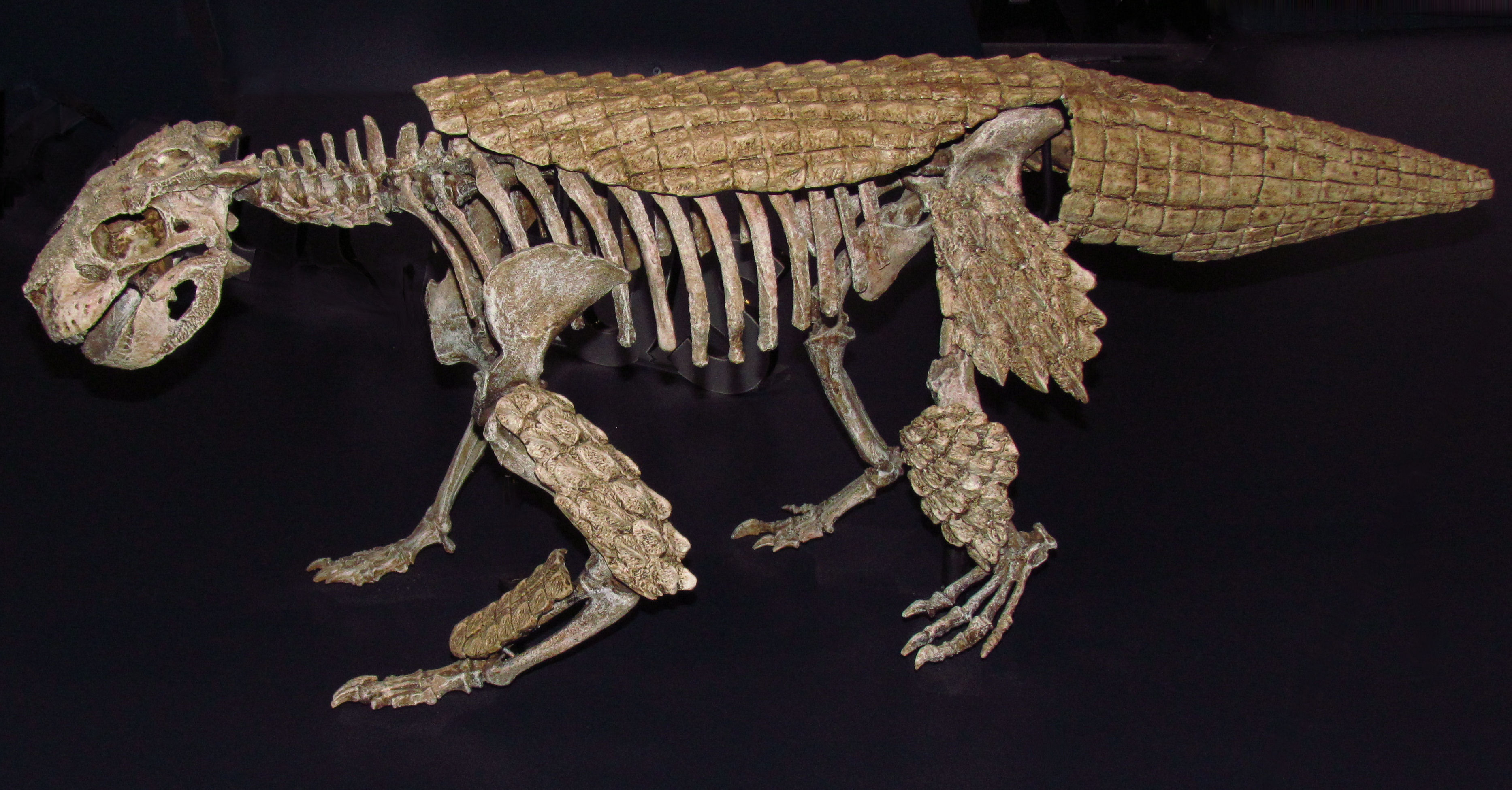 Simosuchus clarki, cast, Royal Ontario Museum, Toronto,Ontario, Canada